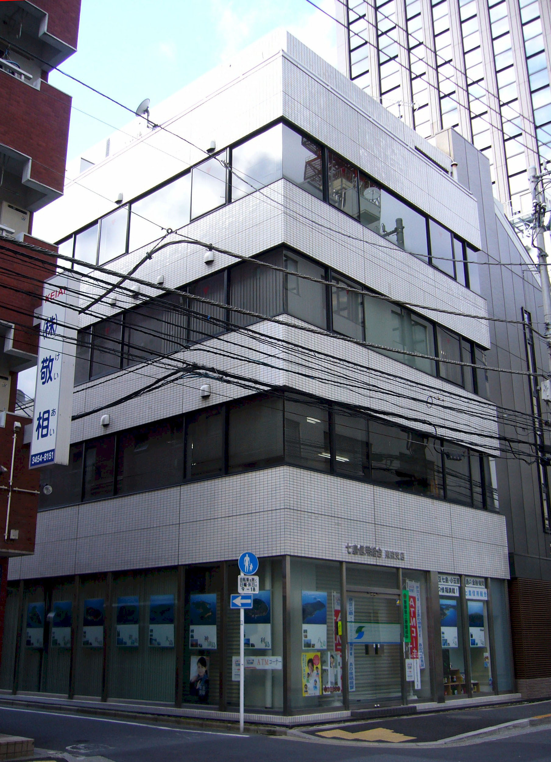 Shichito Shin-yo Kumiai (Japanese credit association) Tokyo branch